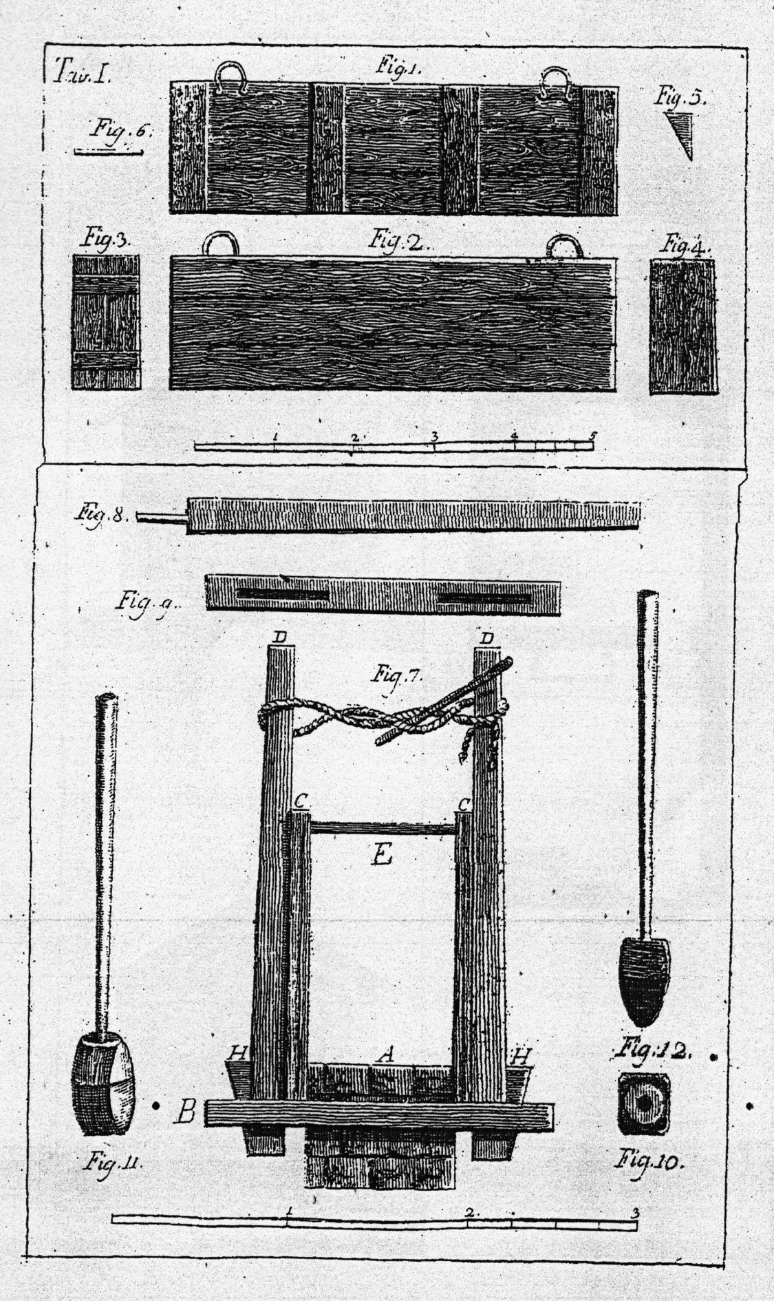 Del Rosso: attrezzattura per la costruzione di muratura in pisé